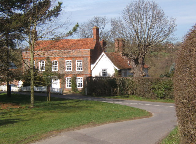 The Fenn, Swingleton Green